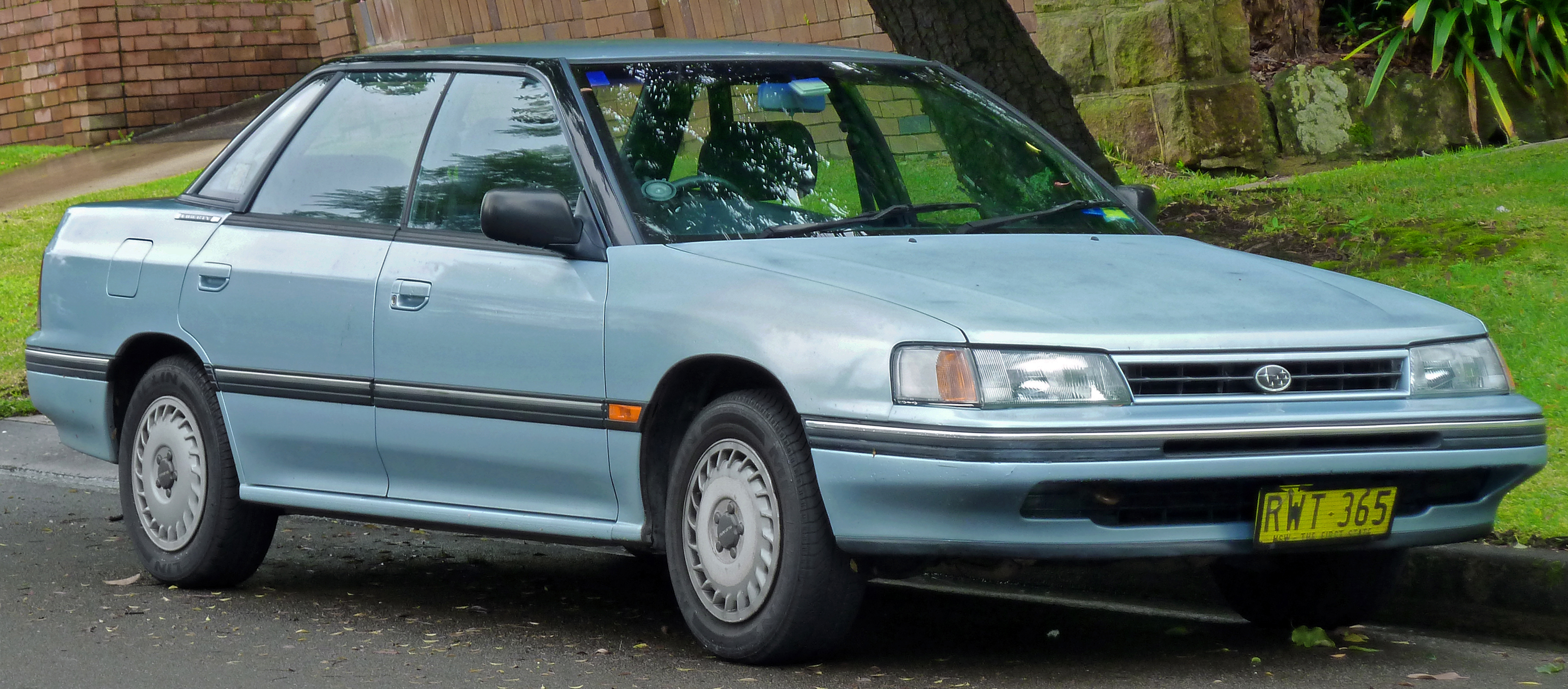 1991 Subaru Liberty (BC6) LX 2WD sedan. Photographed in Gordon, New South Wales, Australia.